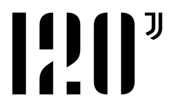 Logo of the Juventus Football Club 120th Anniversary (2017).